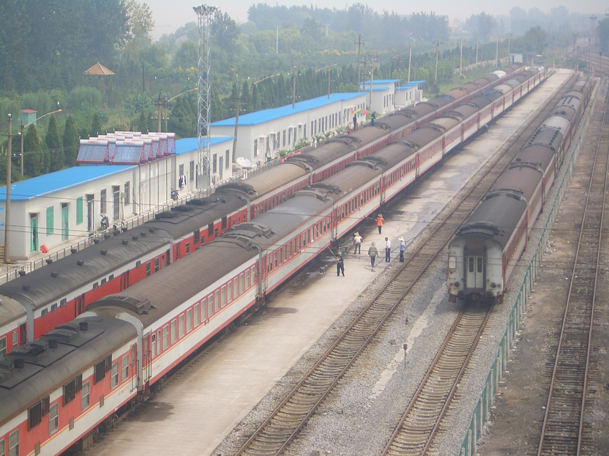 Passenger train sets parked near the Yangtze River in the north-eastern Wuchang (just north-east of Wuhan's Second Changjiang Bridge), to be washed etc.